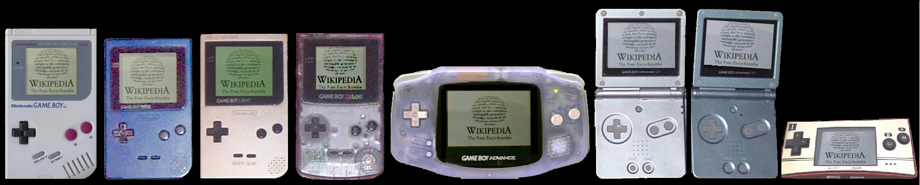 The entire Game Boy line displaying the Wikipedia logo. From left to right: Game Boy, Play It Loud! Game Boy, Game Boy Pocket, Game Boy Light, Game Boy Color, Game Boy Advance, Game Boy Advance SP, Game Boy Advance SP Mark II (with brighter backlight), and Game Boy Micro.